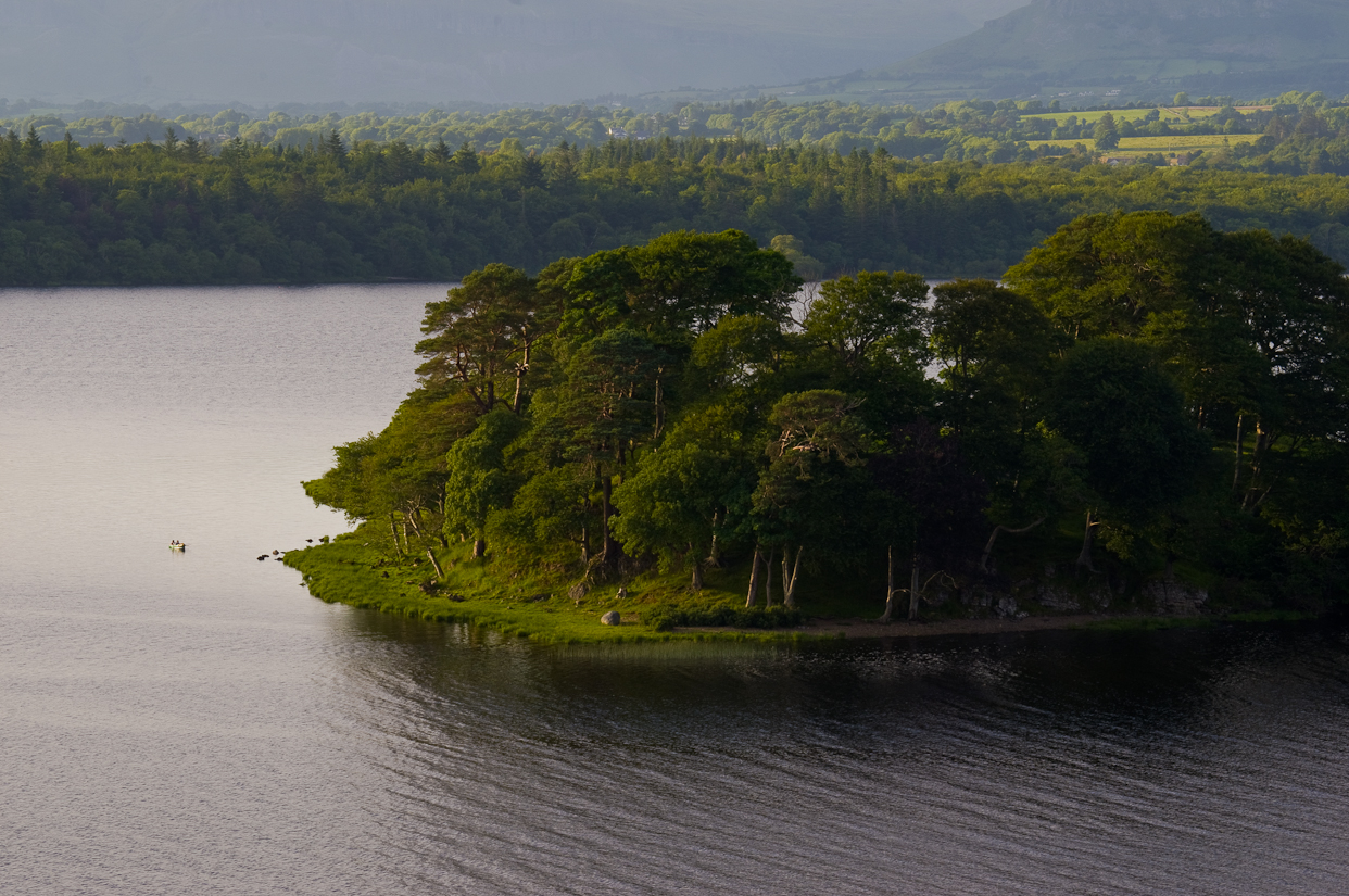 Beezie's Island, named after a woman who lived there, located on Lough Gill, Co Sligo. Also called Gallagher's Island, Cottage Island.